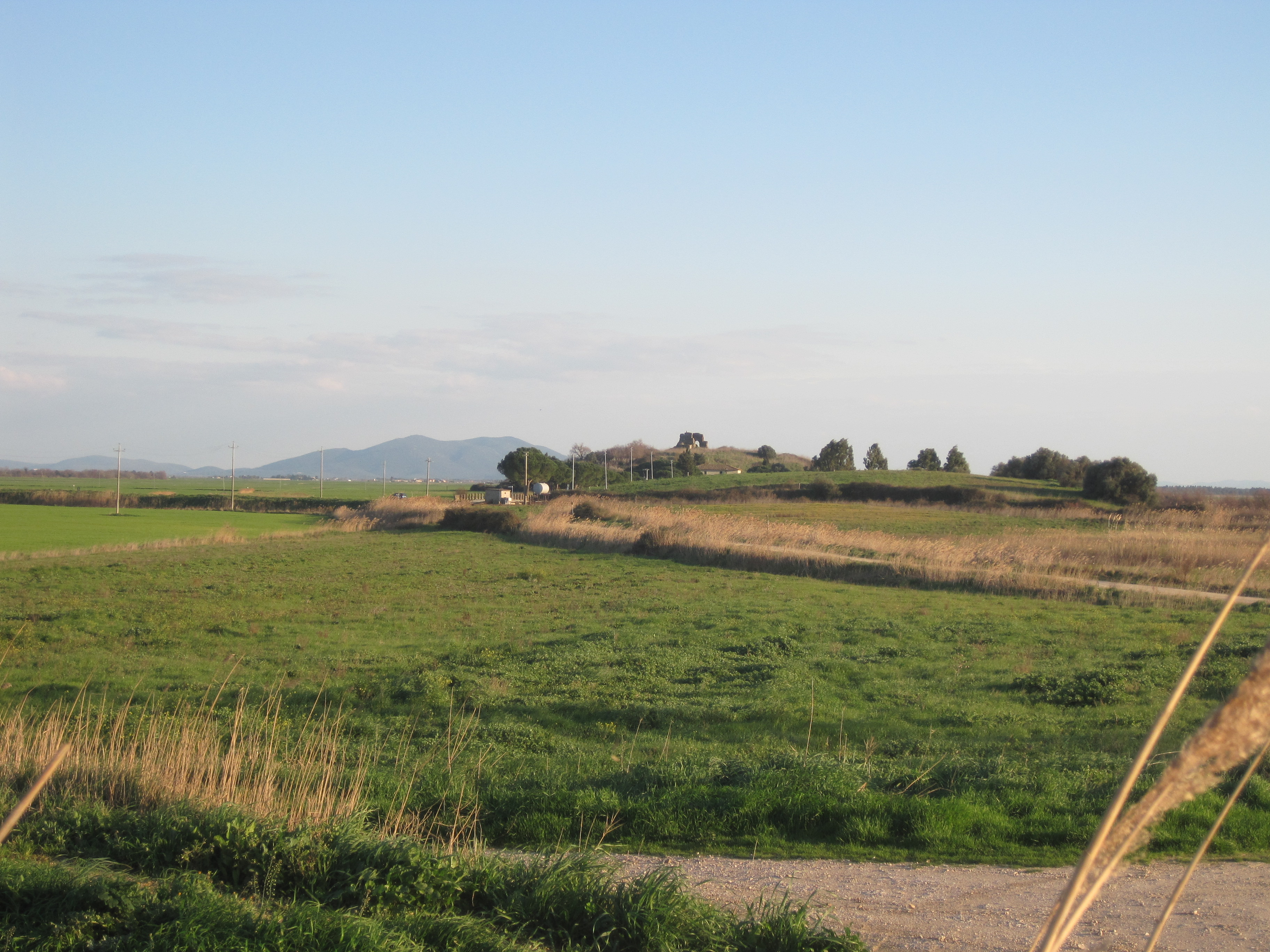 Isola Clodia in Ponti di Badia, Grosseto, Italy